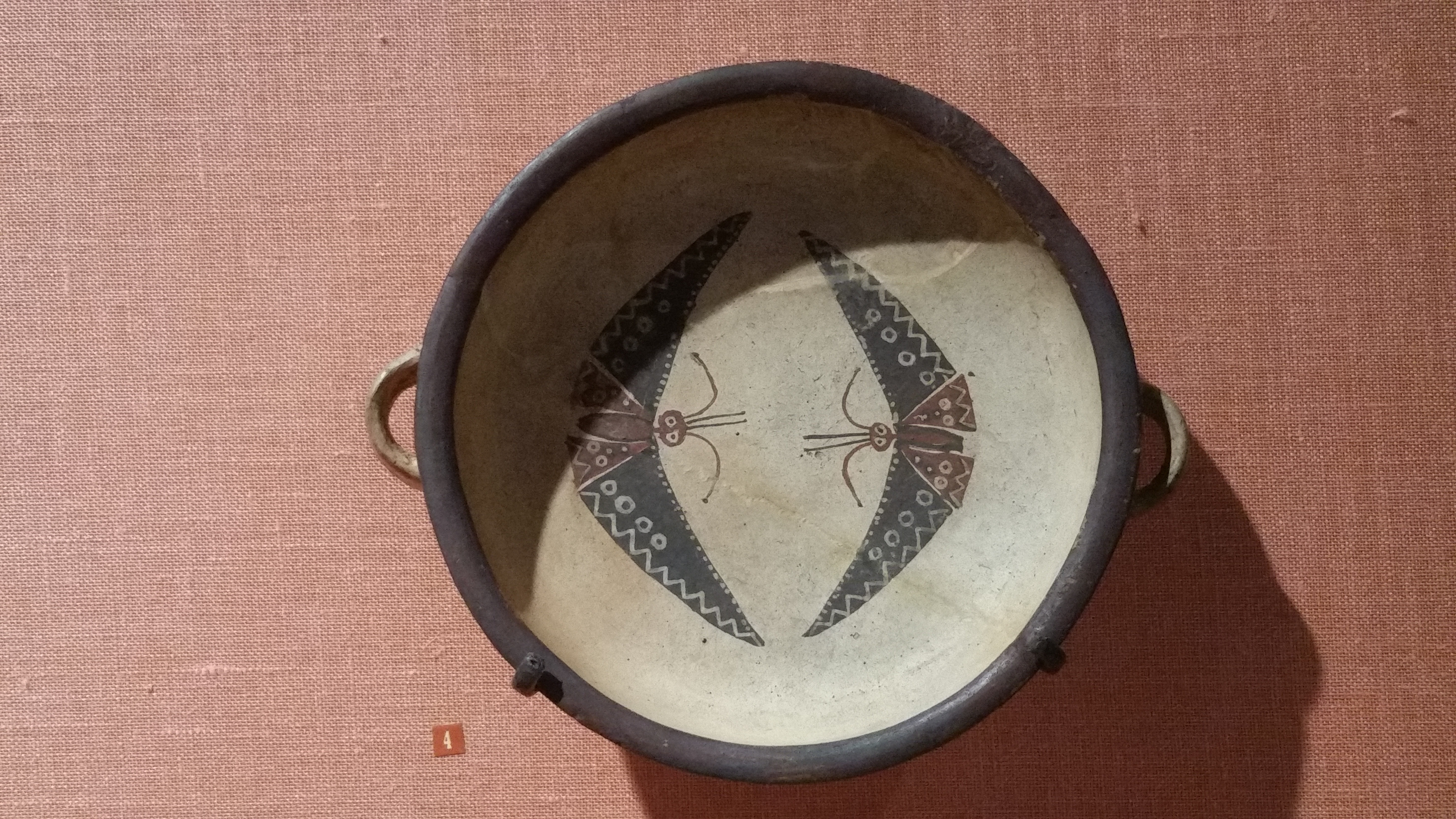 Another artifact collected on Bingham's 1912 expedition to Macchu Picchu, on display in the Museo Machu Picchu, Casa Concha, Cusco